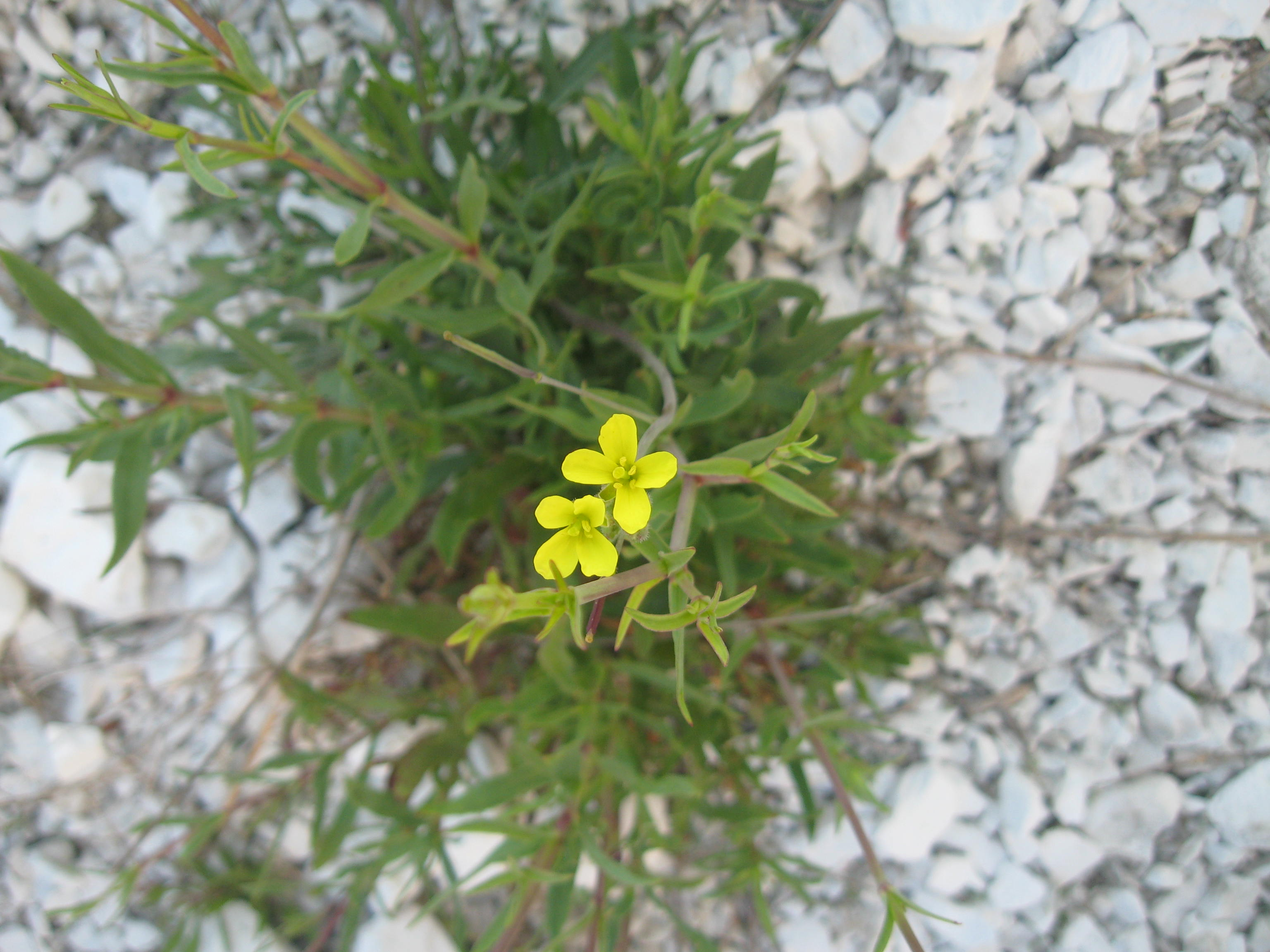 Diplotaxis cretacea Kotov